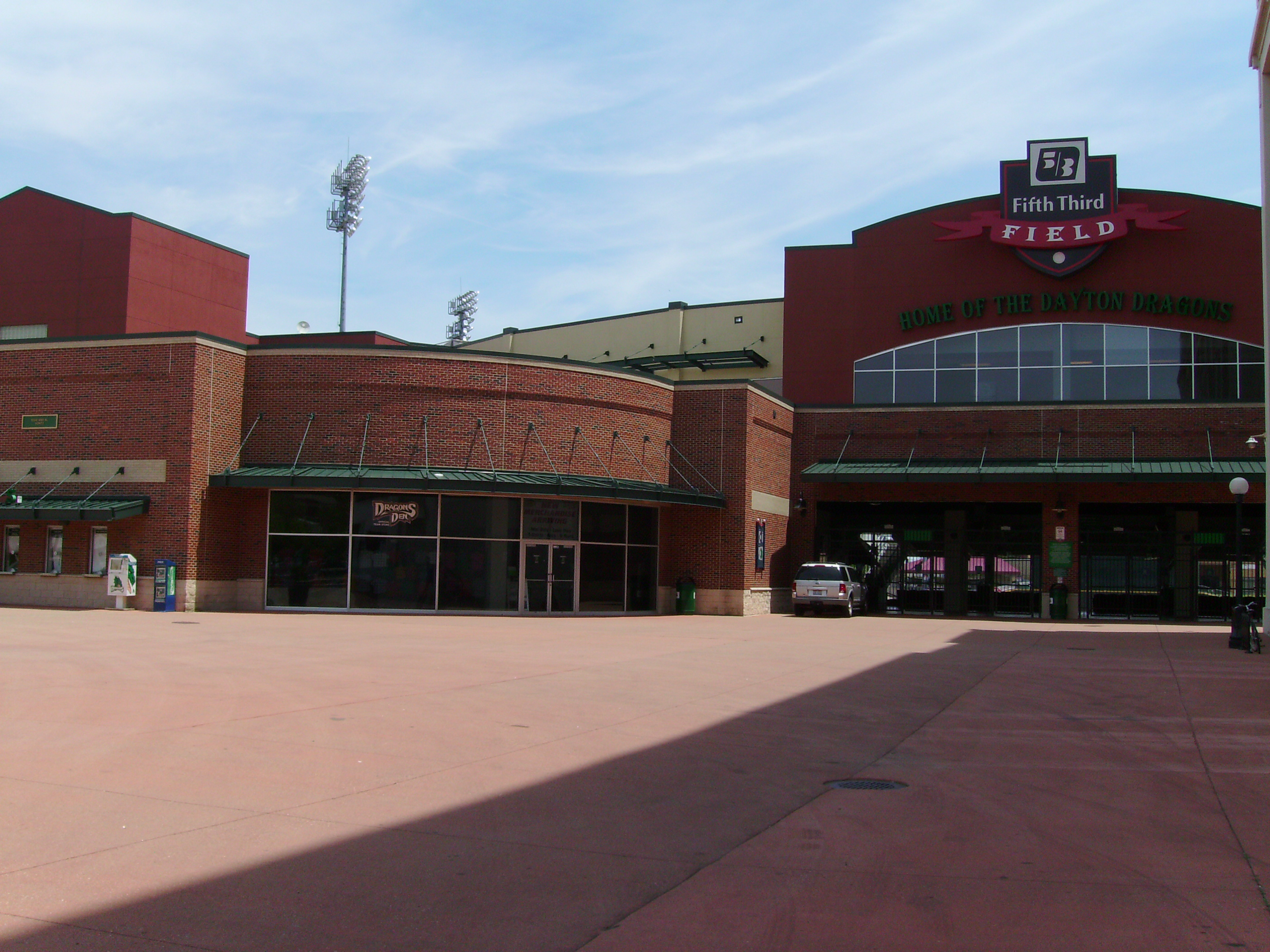 Main Gate and entrance to Fifth Third Field in Dayton, Ohio.